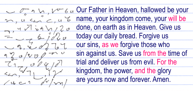 Text is the English Language Liturgical Consultation version of the Lord's Prayer, written in Teeline shorthand and in Latin script for comparison. Red text indicates where two words have been joined into one word grouping in the Teeline.